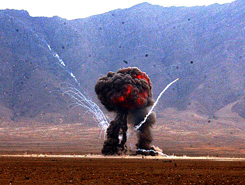 A weapons cache is detonated at the East River Range on Bagram Airfield, Afghanistan, Dec. 2, 2004. The cache was destroyed by airmen of the U.S. Air Force's 455th Explosive Ordnance Group. U.S. Army photo by Sgt. J. Antonio Francis.